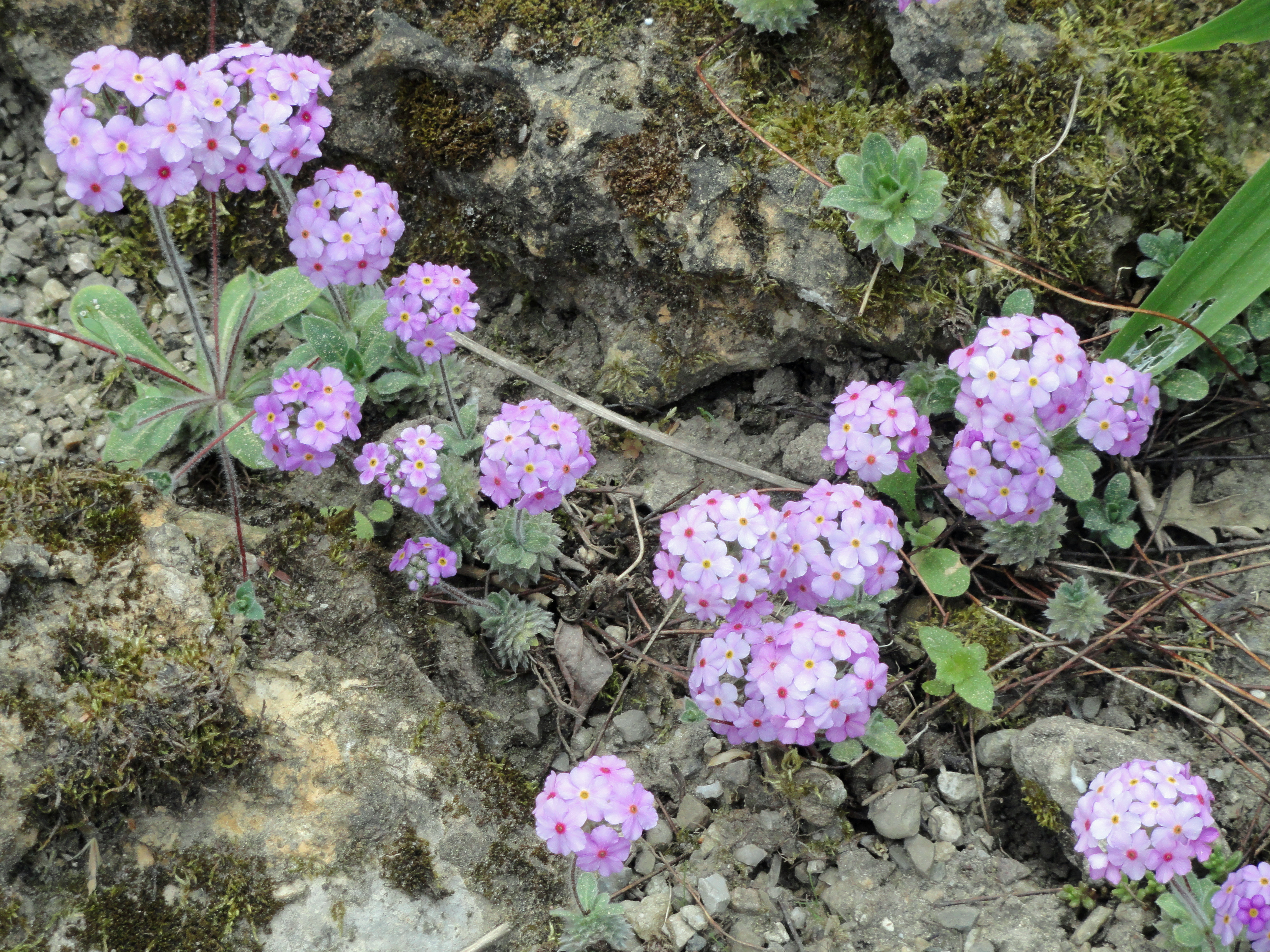 Androsace sarmentosa specimen in the Botanischer Garten Freiburg, Freiburg im Breisgau, Baden-Württemberg, Germany.